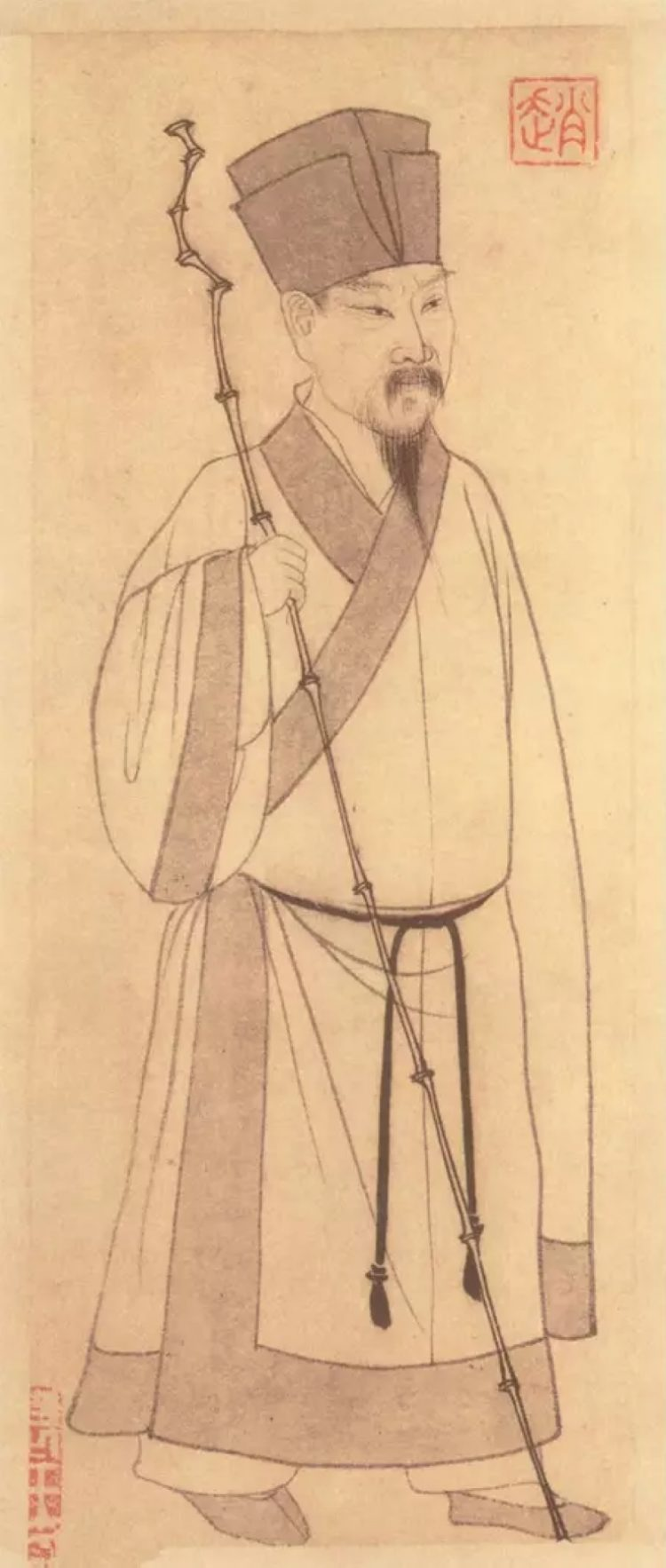 This painting, depicting Su Shi (蘇軾), appears as the frontispiece in the Album of Both Odes on the Red Cliff (赤壁二賦冊), a calligraphic work by Zhao Mengfu. It was painted by Zhao Mengfu to supplement his calligraphy.